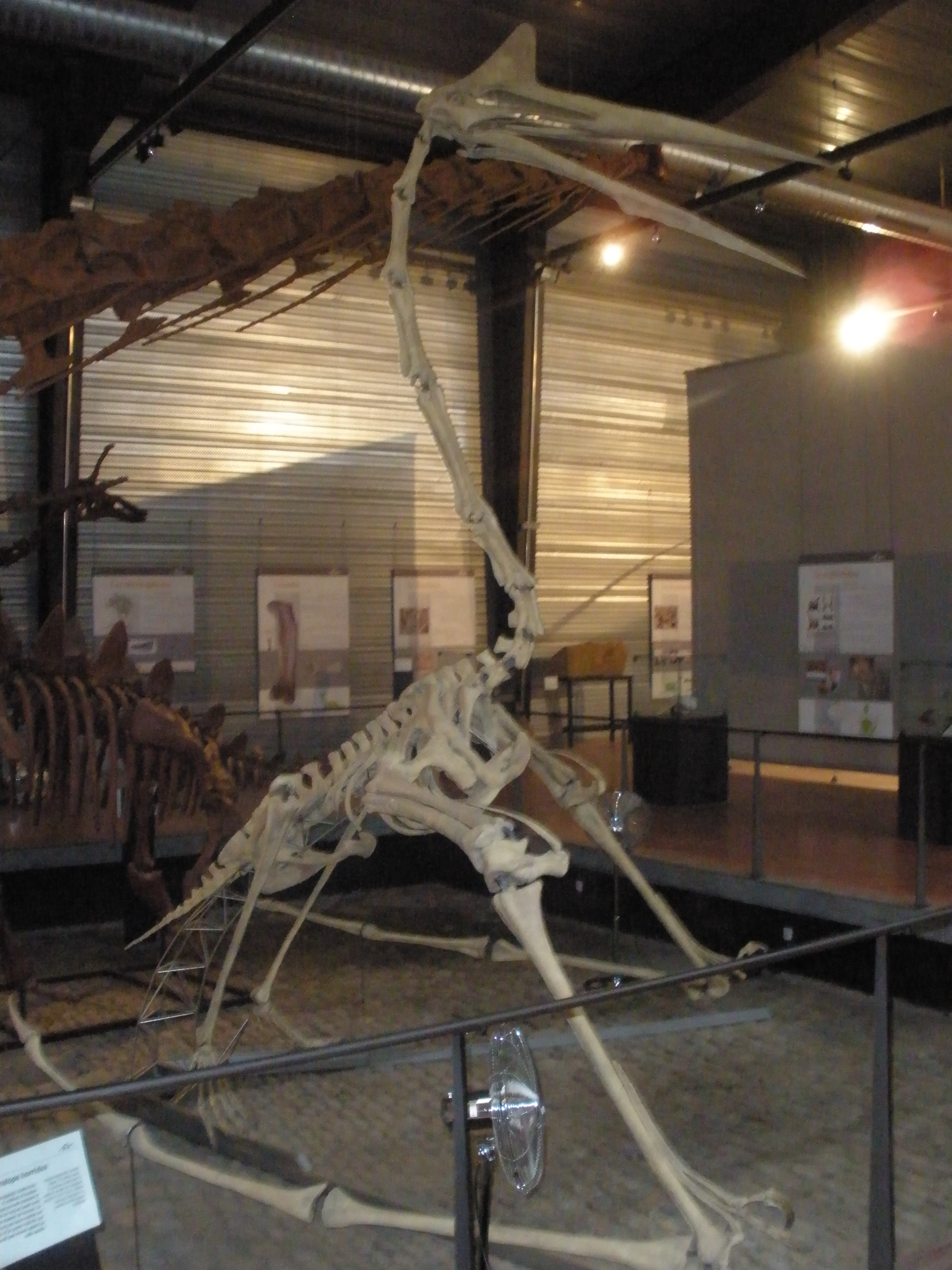 Fossil of Quetzalcoatlus, an extinct pterosaur.